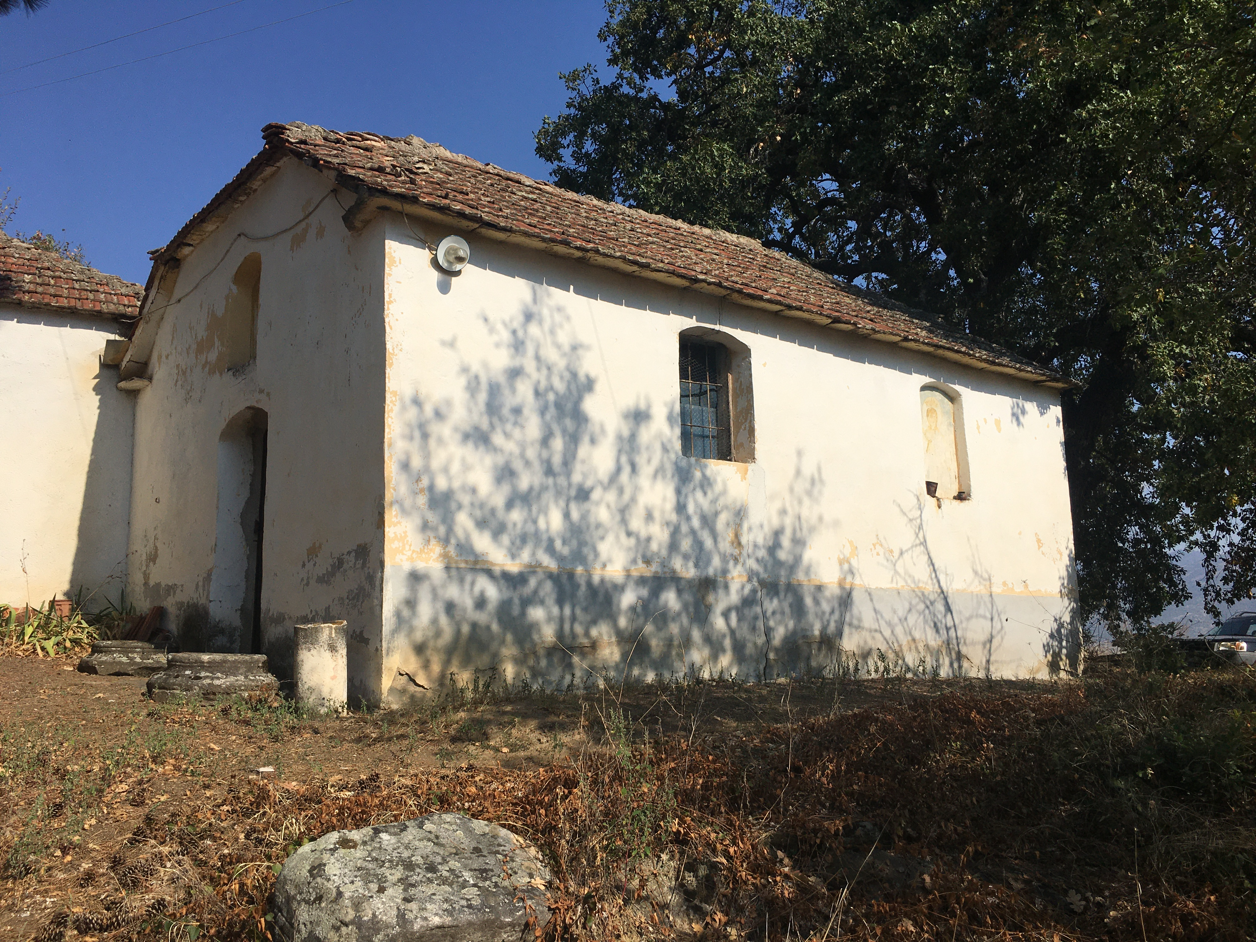 St. Athanasius Church in the village of Slivje